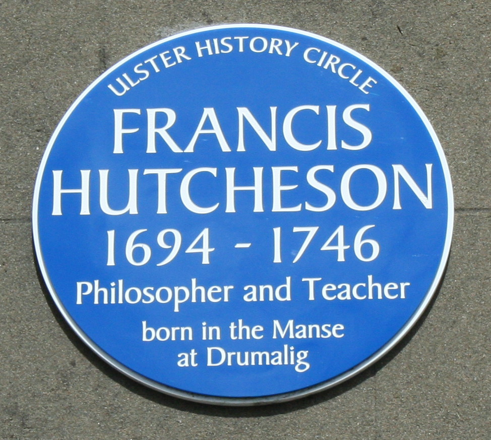 Plaque to Francis Hutcheson Credit: A Peter Clarke image